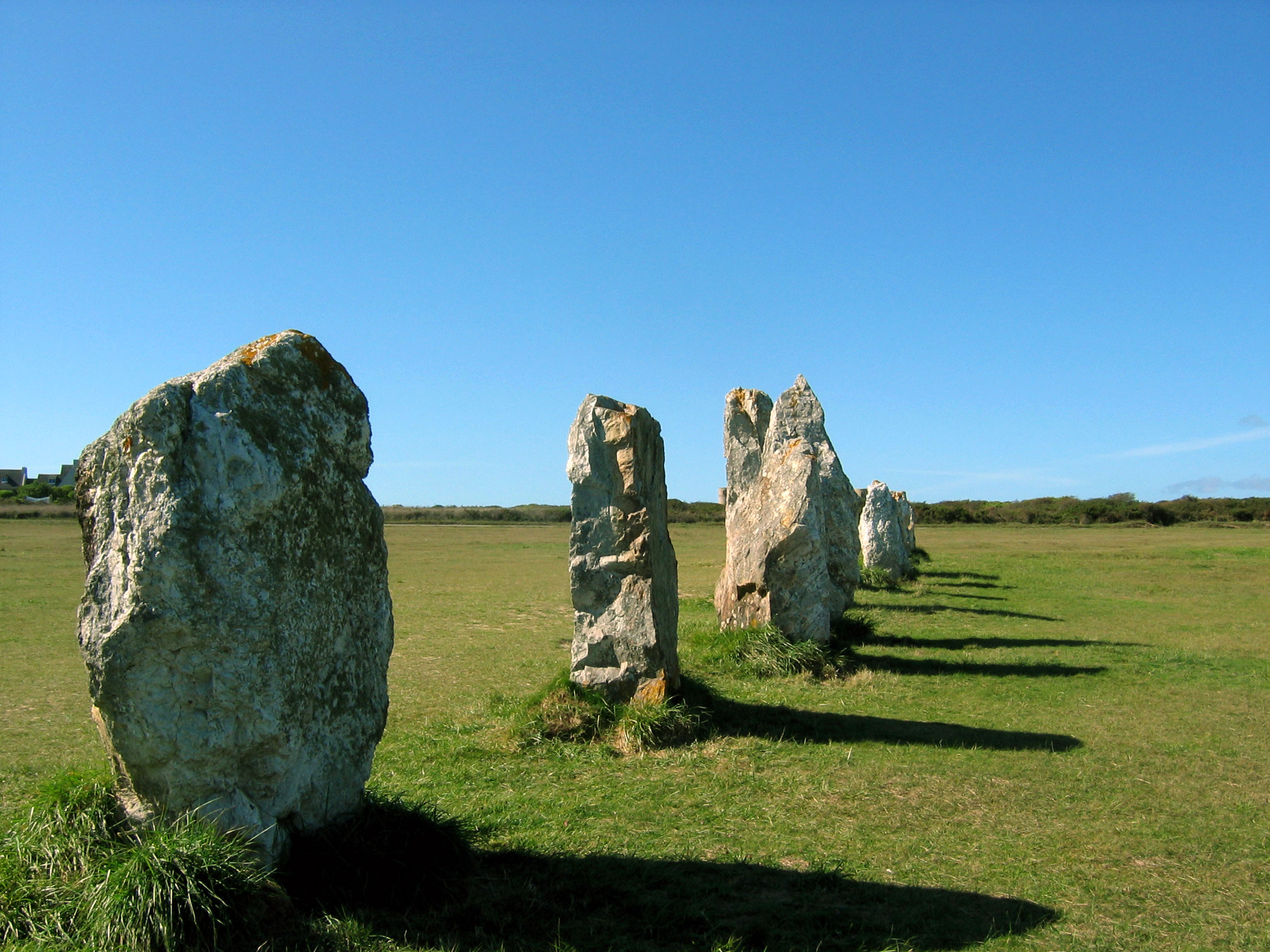 Lagatjar Stone Rows at Camaret-sur-Mer